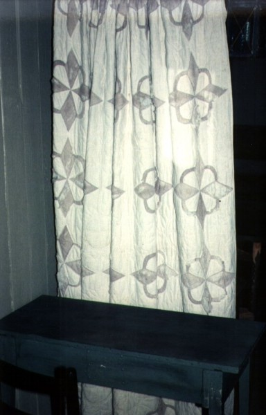 Curtain at Peter Whitmer log home; per (source of image) "Curtain at Peter Whitmer Farm demonstrates how Smith was separated from his scribe during the 'translation' of the Book of Mormon, Fayette."The Peter Whitmer log home is a replica, reconstructed in 1979 by The Church of Jesus Christ of latter-day Saints, and this curtain is not an artifact from the original building.